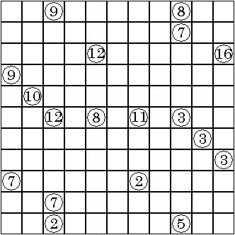 A sample puzzle of Where is Black Cells, created by GLmathgrant (me). The solution is unique.